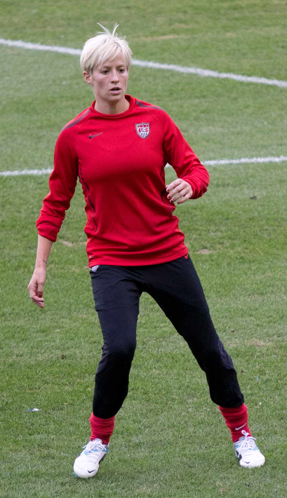 Megan Rapinoe of the United States Women's National Soccer team warming up prior to a friendly match against Canada on September 17th, 2011.